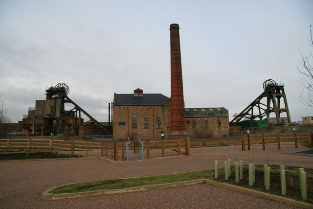 Pleasley Colliery Not been for a while and find landscaping and a new car park. The big Markham winder is in the house to the left with 1873 on its cross gable and the 1902 lilleshall is to the right. The latter can now be driven by an electric motor and is most impressive. This site was derelict and largely roofless in the not too distant past and Bob Metcalfe and Friends of Pleasley Pit have wrought a minor miracle in getting it into its current state. There are people on site on Sunday mornings and they will make you welcome.